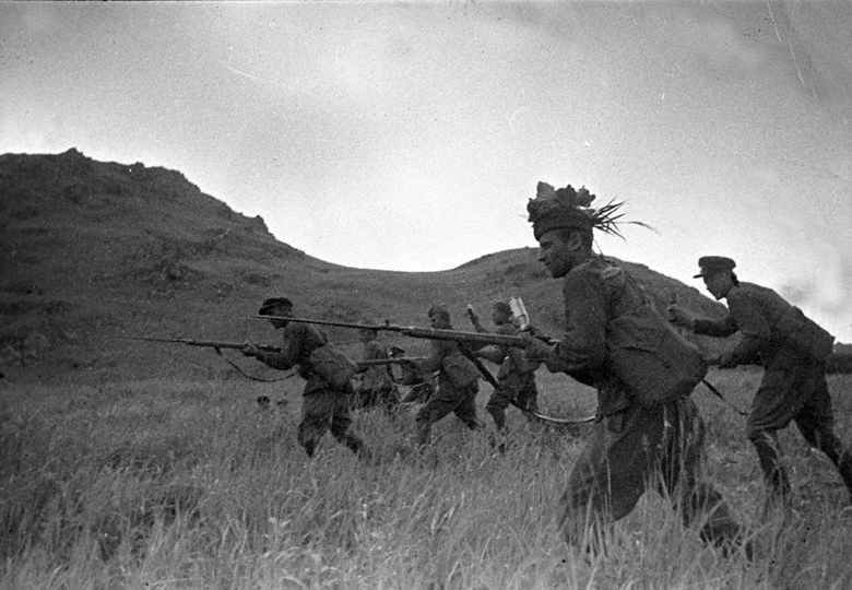 Battle of Lake Khasan-Red Army soldiers on attack